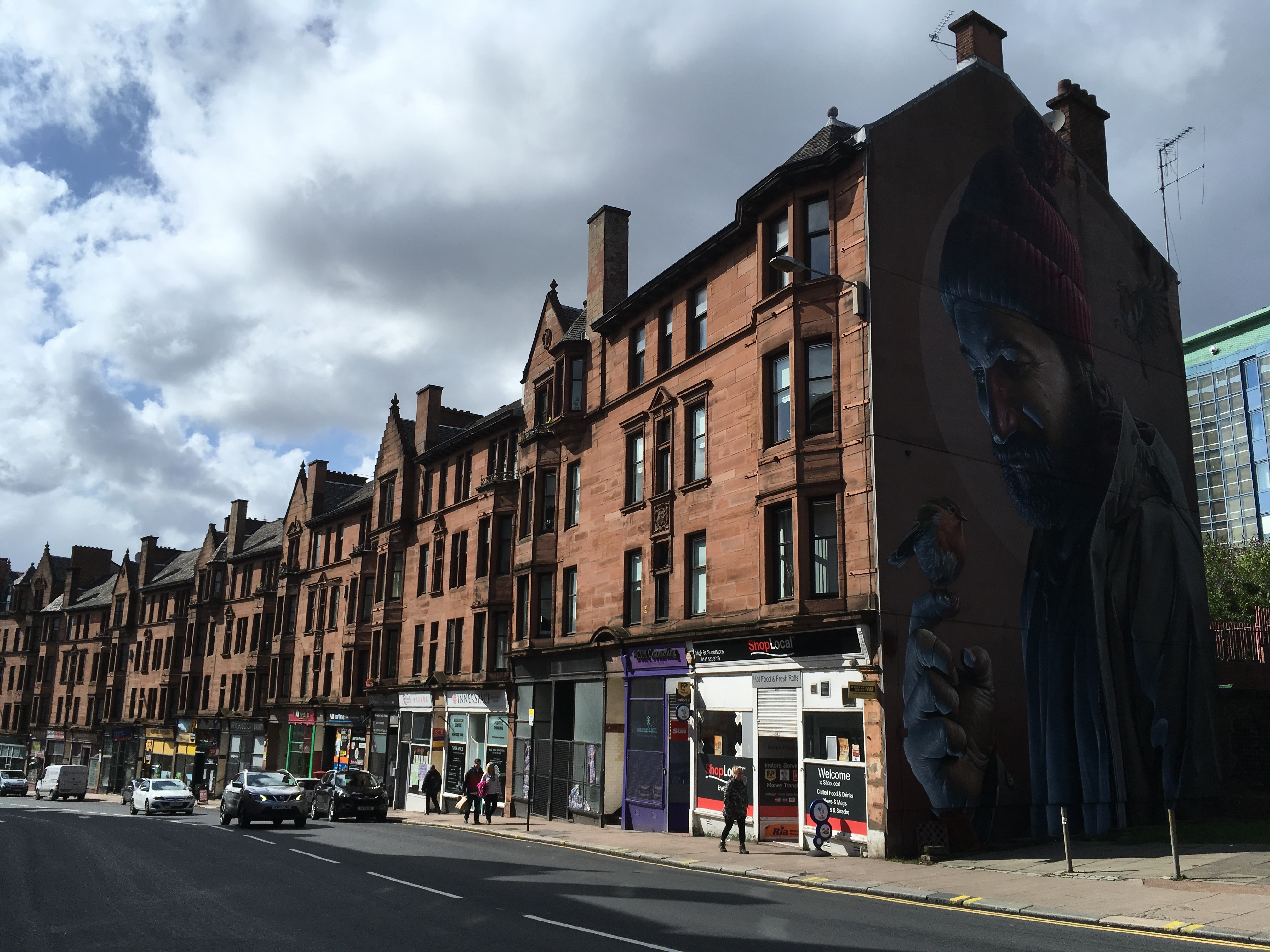 (235 - ) 279, 281, 283, 285 High Street Wikidata has entry Q17793274 with data related to this item.